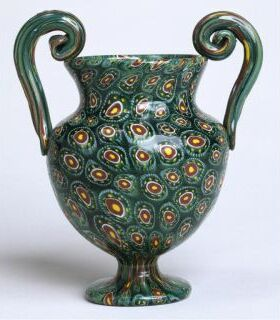 Vase, 1872 V&A Museum no. 1188-1873 Techniques - Green millefiori glass Artist/designer - Venice & Murano Glass & Mosaic Co. Ltd (manufacturers) Place - Venice Dimensions - Height 11.7 cm, Width 10.0 cm (maximum)